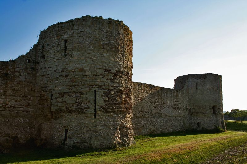 Pevensey Castle in Sussex.